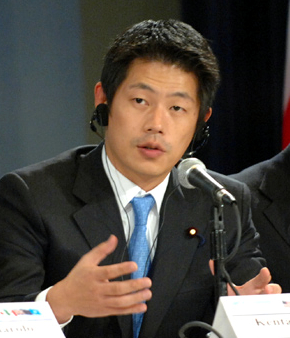 Kenta Matsunami, Parliamentary Secretary for Health, Labour and Welfare, and Donato Greco, Head of the Department of Prevention and Communications, Ministry of Health, held a press event at the Natcher Auditorium in Montgomery County, Maryland State on November 2, 2007.